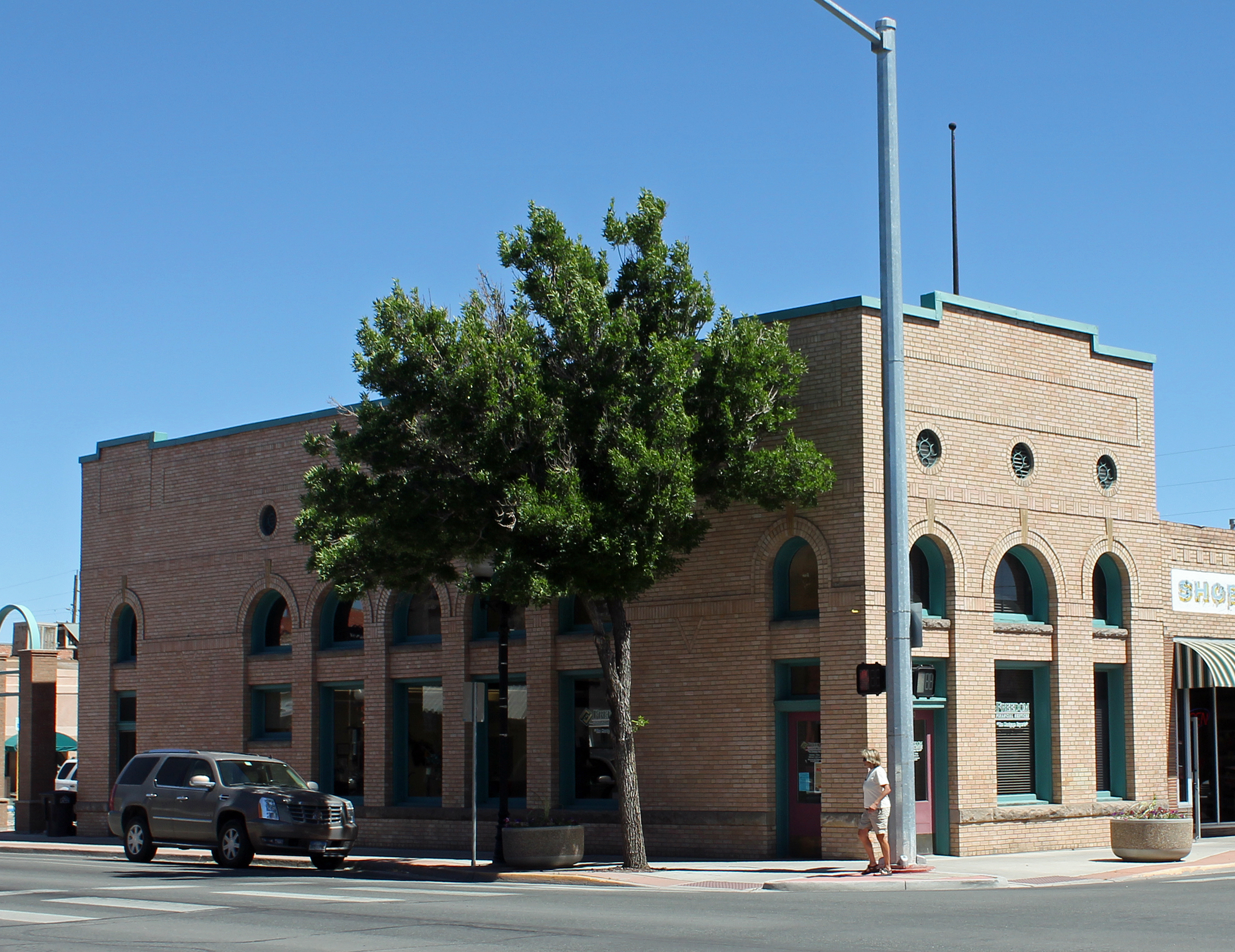 The American National Bank Building, located at 500 State Avenue in Alamosa, Colorado. The property is listed on the National Register of Historic Places.